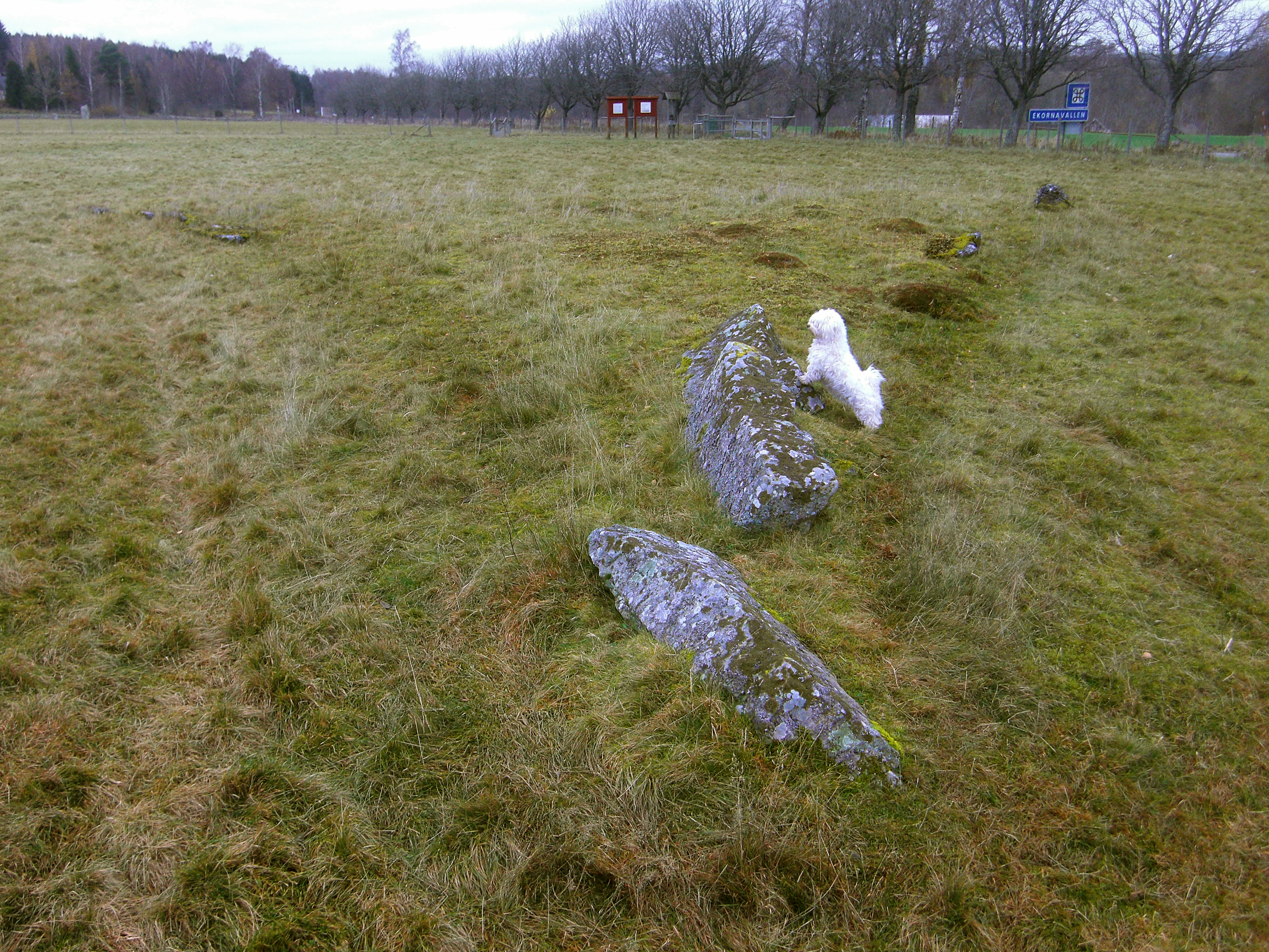 A so called "treudd" (a starlike, three-armed cairn) (RAÄ-nr Hornborga 29:1) at Ekornavallen in Hornborga parish, Gudhem hundred, Falköping municipality, former Skaraborg county, Västergötland, Sweden.